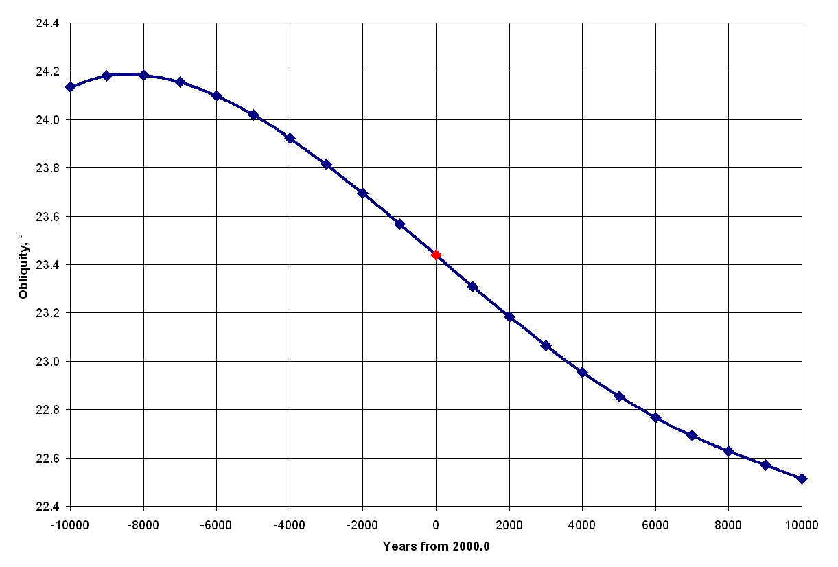 Graph of obliquity of the ecliptic vs time for +/- 10,000 years; from Laskar, J. (1986), "Secular Terms of Classical Planetary Theories Using the Results of General Relativity"